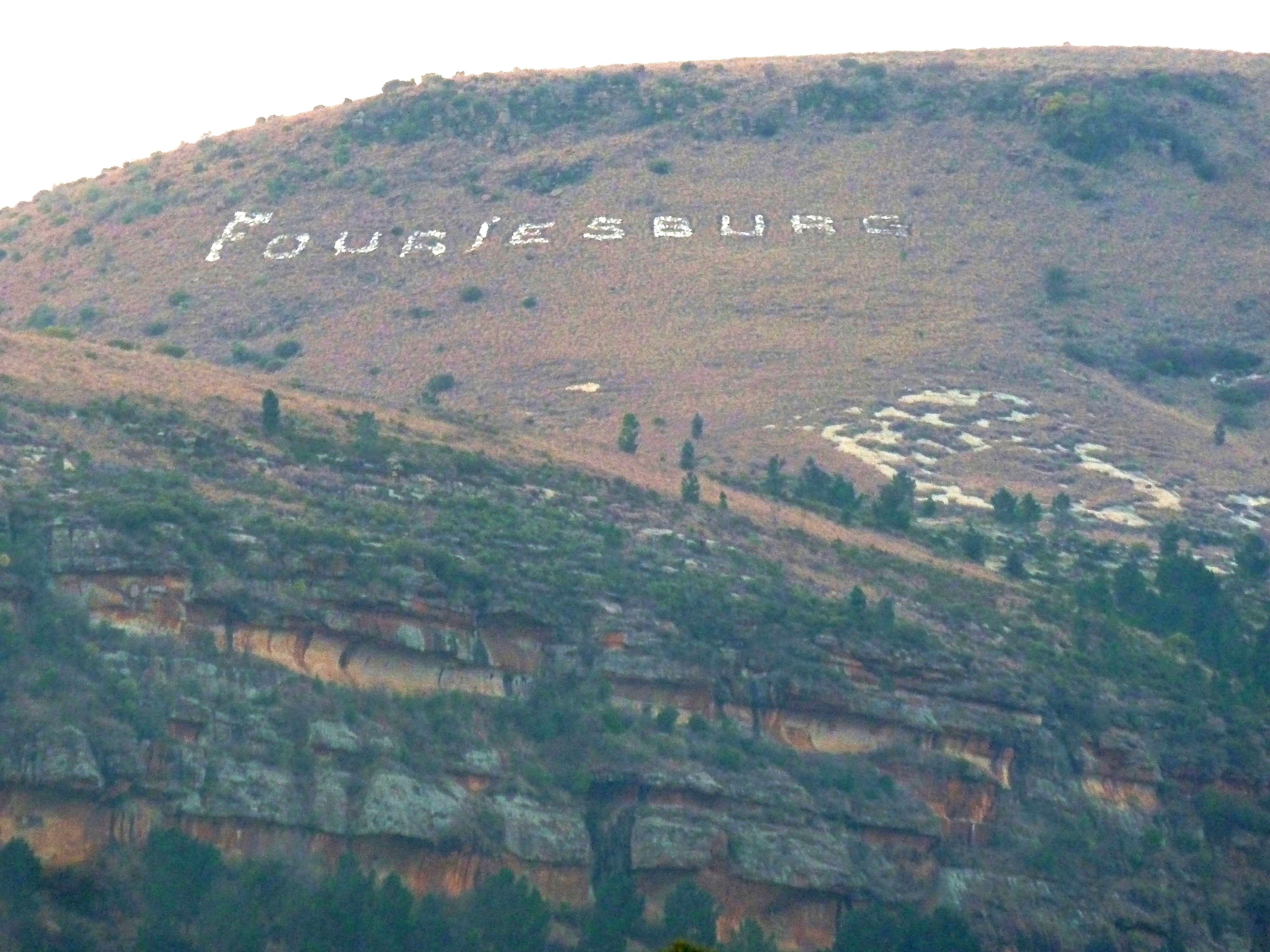 Ventersberg (2,259 m) at the western limit of the Rooiberge range, has the name of nearby Fouriesburg marked in white stone